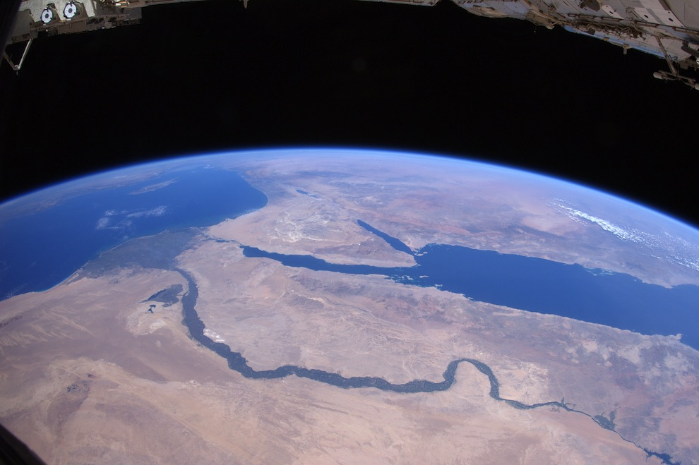 The Nile and Egypt by day. Satellite photo from the ISS.